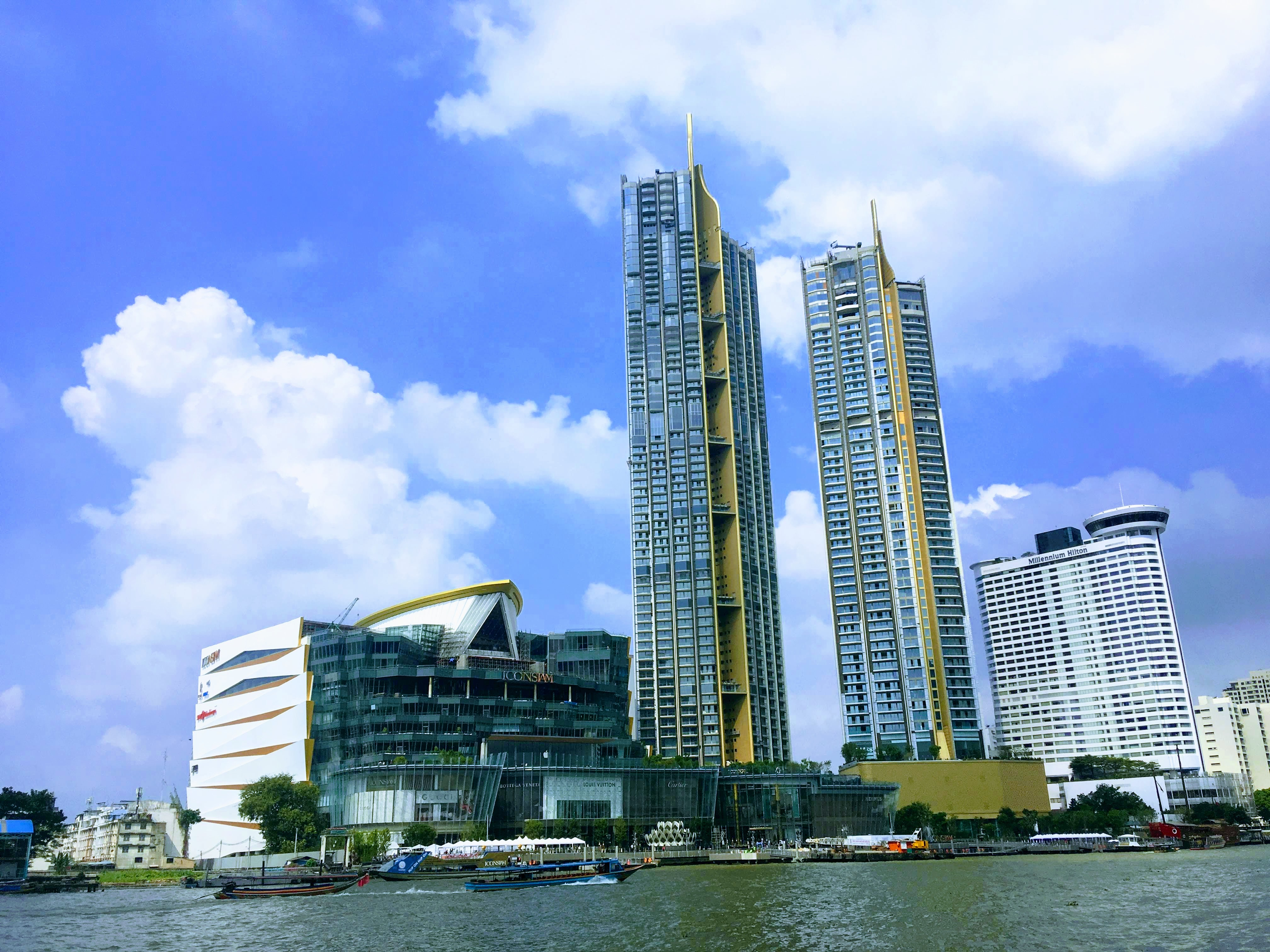 ICONSIAM taken from Old Custom House in Bangrak District, Thailand.